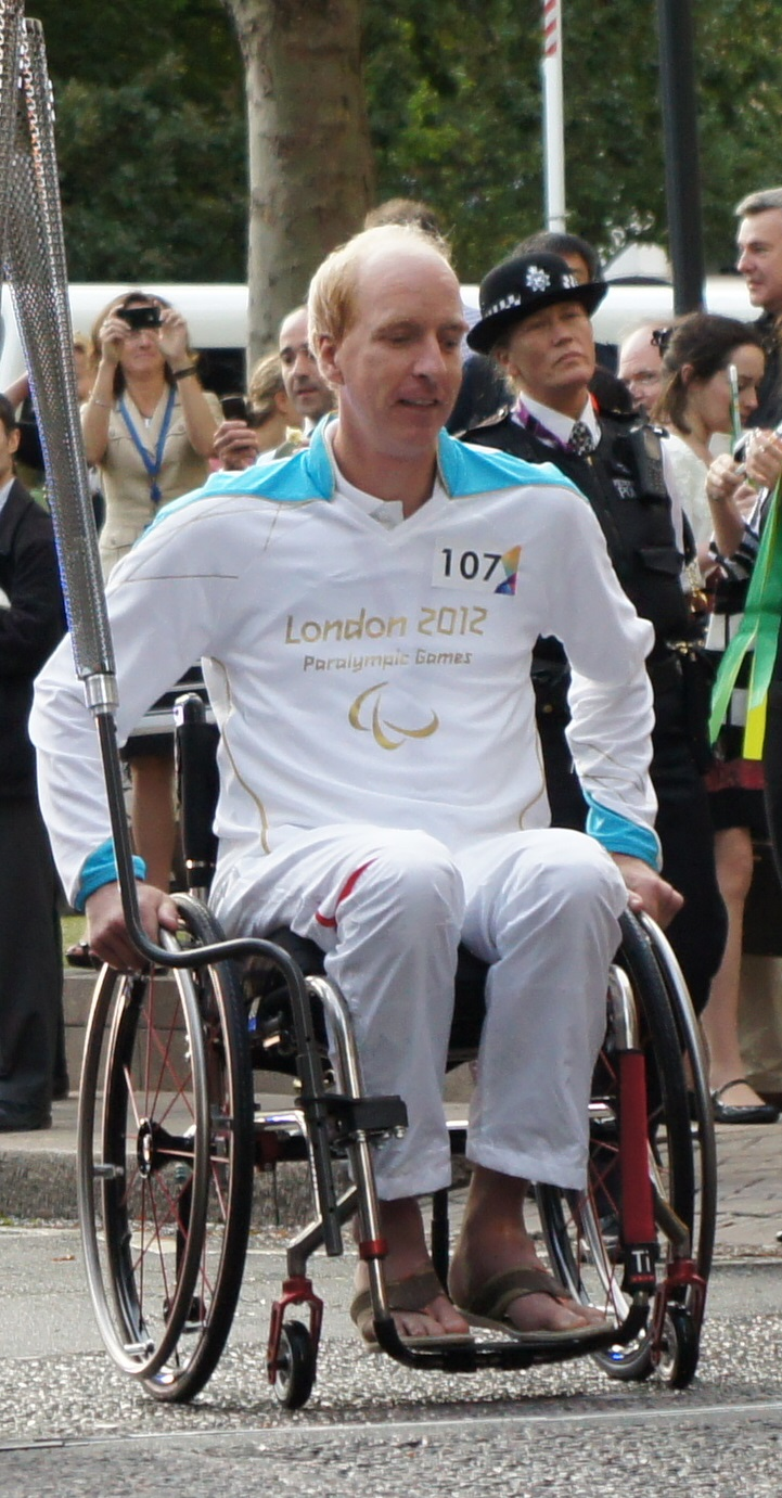 Simon Richardson (Welsh cyclist), carrying the torch during the 2012 Summer Paralympic Games in London at Canary Wharf. Richardson, a double gold medal winner at the 2008 Paralympic Games in Beijing, talks about being a torch bearer at Canary Wharf on his blog and it is reiterated on the BBC News. This is a cropped version of the original